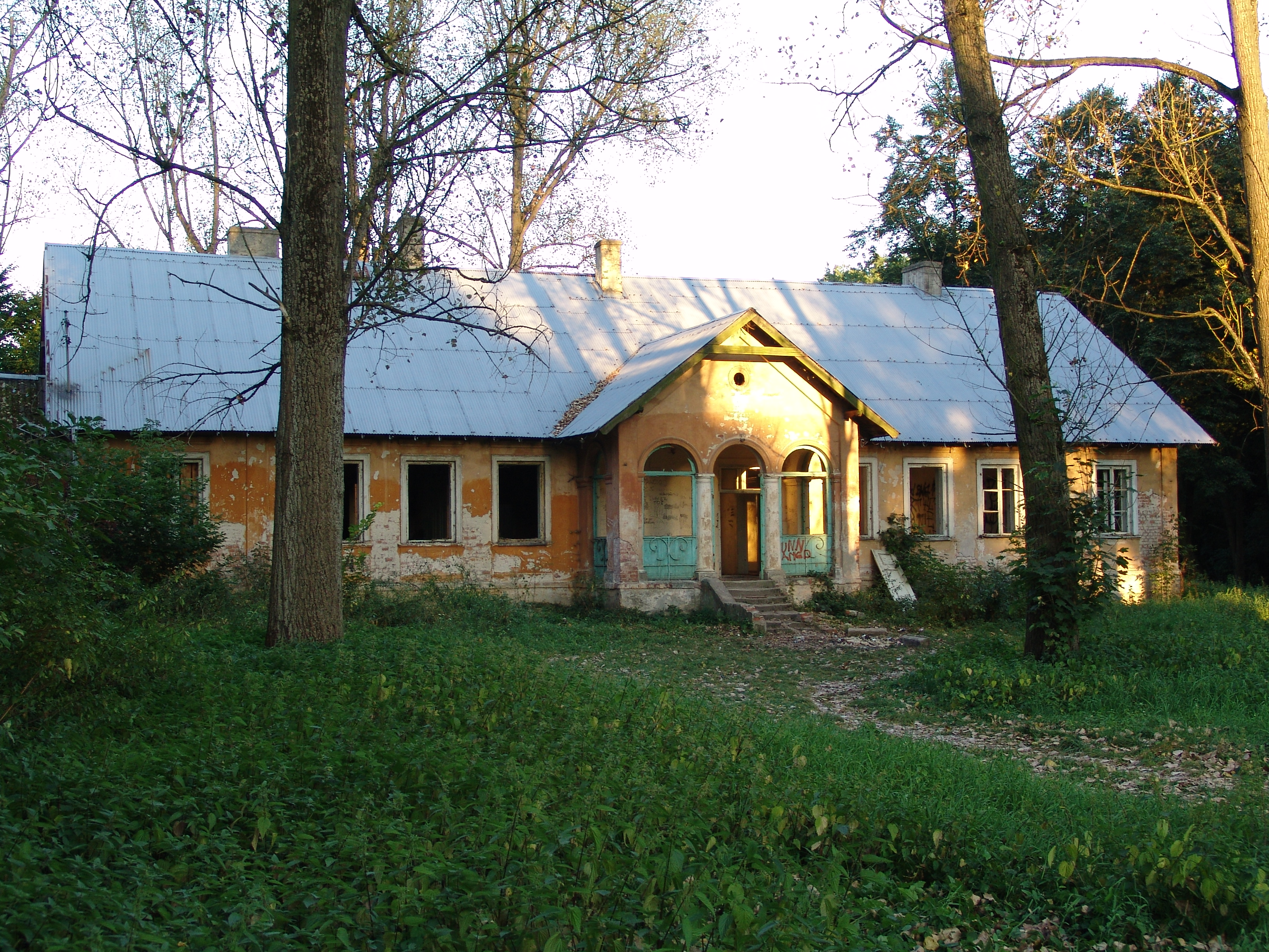 Manor in Ruszcza, Poland